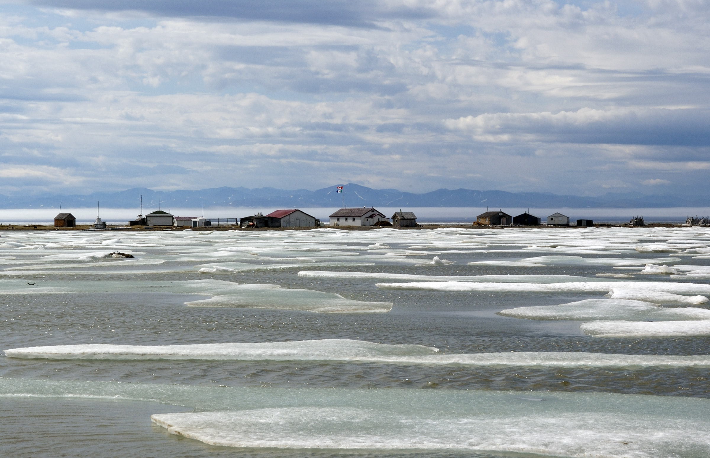 An image of the historic buildings at Pauline Cove, Herschel Island, Yukon.